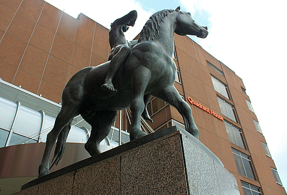 The Messenger, Quadrant House, Sutton, London A bronze art-work by David Wynne dated 1981 after given the brief for the work as "communication".